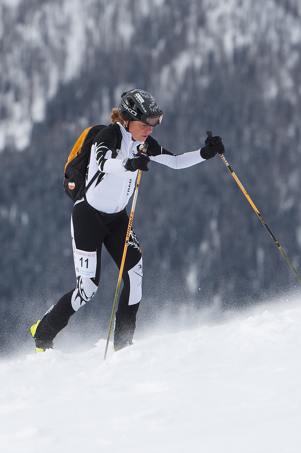 Francesca Martinelli at the 2nd Palaronda SkiAlp, 2010